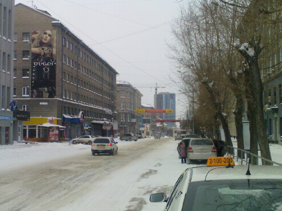 Novosibirsk: Lenina street